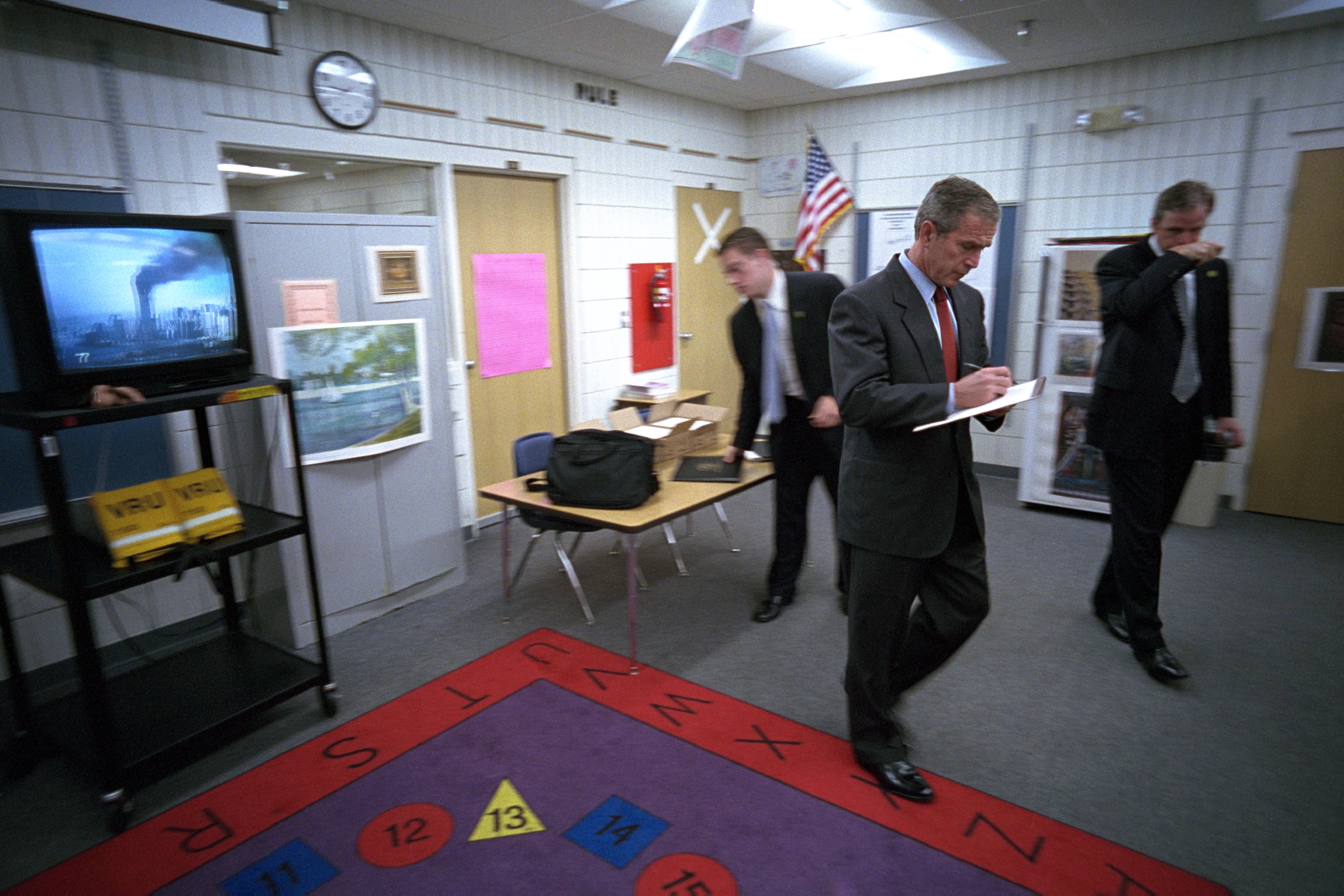 Around 9:10 a.m.[1] and just after the second plane hit the WTC, President George W. Bush leaves the classroom he was visiting at Booker Elementary School (Sarasota, Florida) and enters his staff's holding room. He had not yet seen video of a plane hitting the towers. The first tower would fall later in the hour.